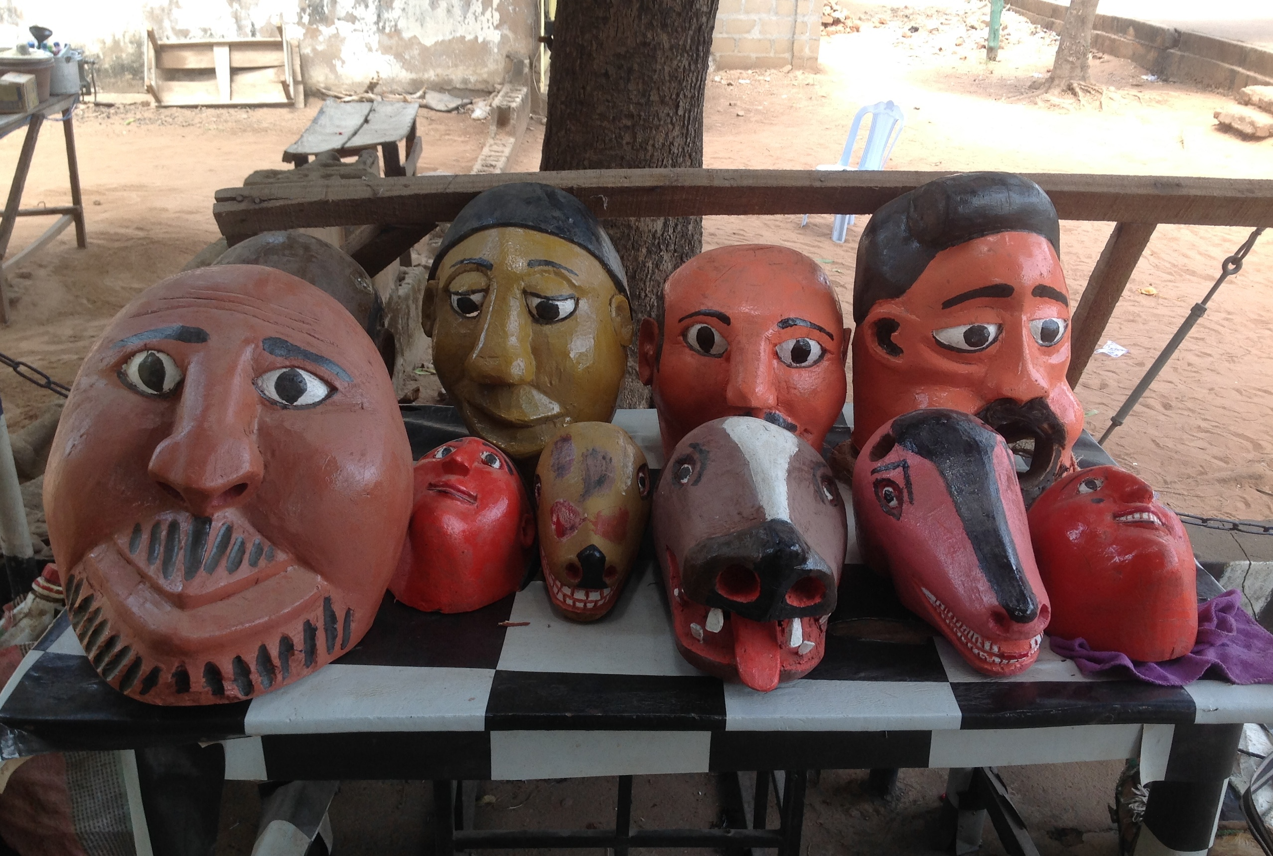 Kwagh-hir is a UNESCO Intangible Cultural Heritage of Humanity